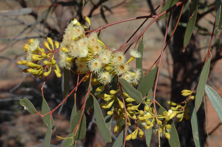 Flower buds and flowers of Eucalyptus thozetiana, between Tilpa and Tonga, Paroo Overflow, New South Wales